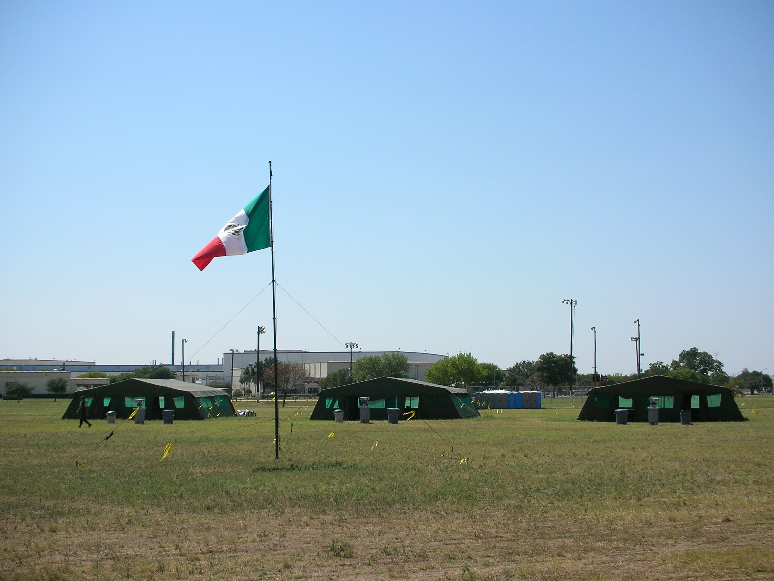 20050926174405 - Mexican army camp in San Antonio, Texas